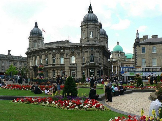 Queen's Gardens, Hull On the day of the graduation ceremony of the University of Hull, graduands in their academic gowns wait for the start of the ceremony, with their parents and friends. The ceremony takes place in the City Hall, the building with the dome down the street beyond the bus.